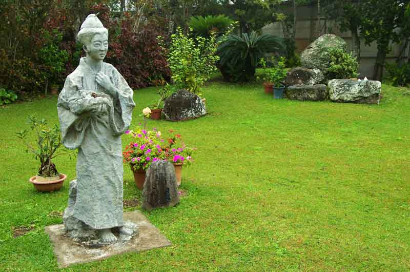 This statue commemorates the fate of a girl who fell in love with a married man on the island of Iejima. In despair, she climbed a mountain and used her long hair to hang herself.